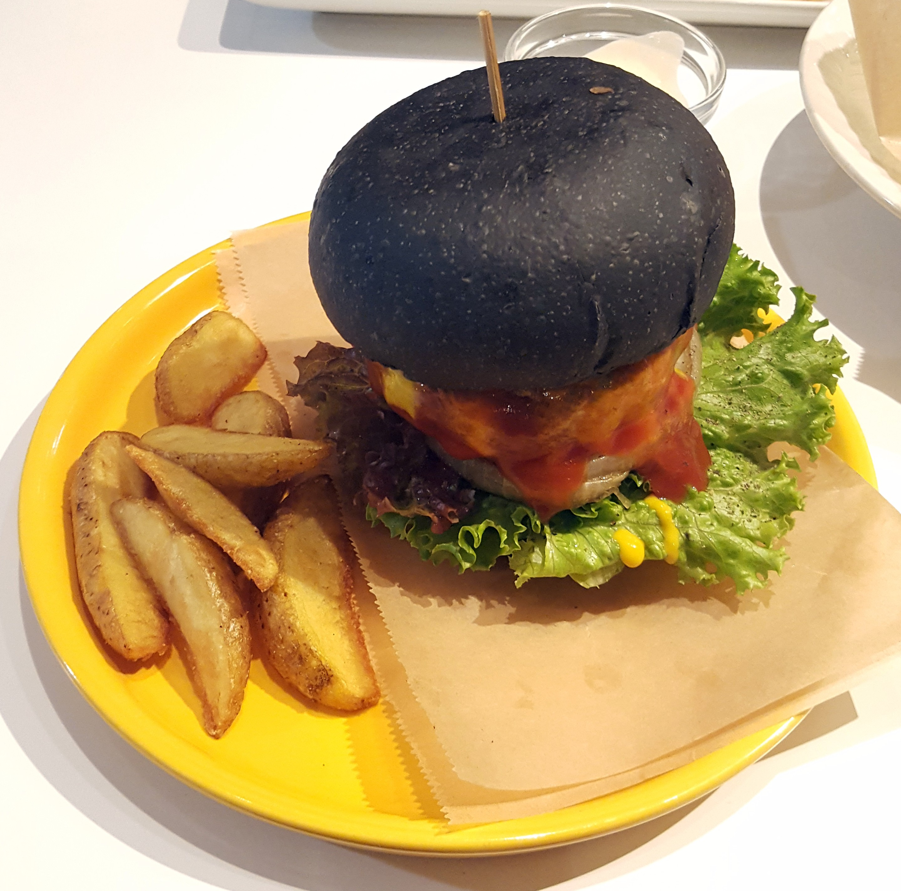 Picture of a charcoal burger